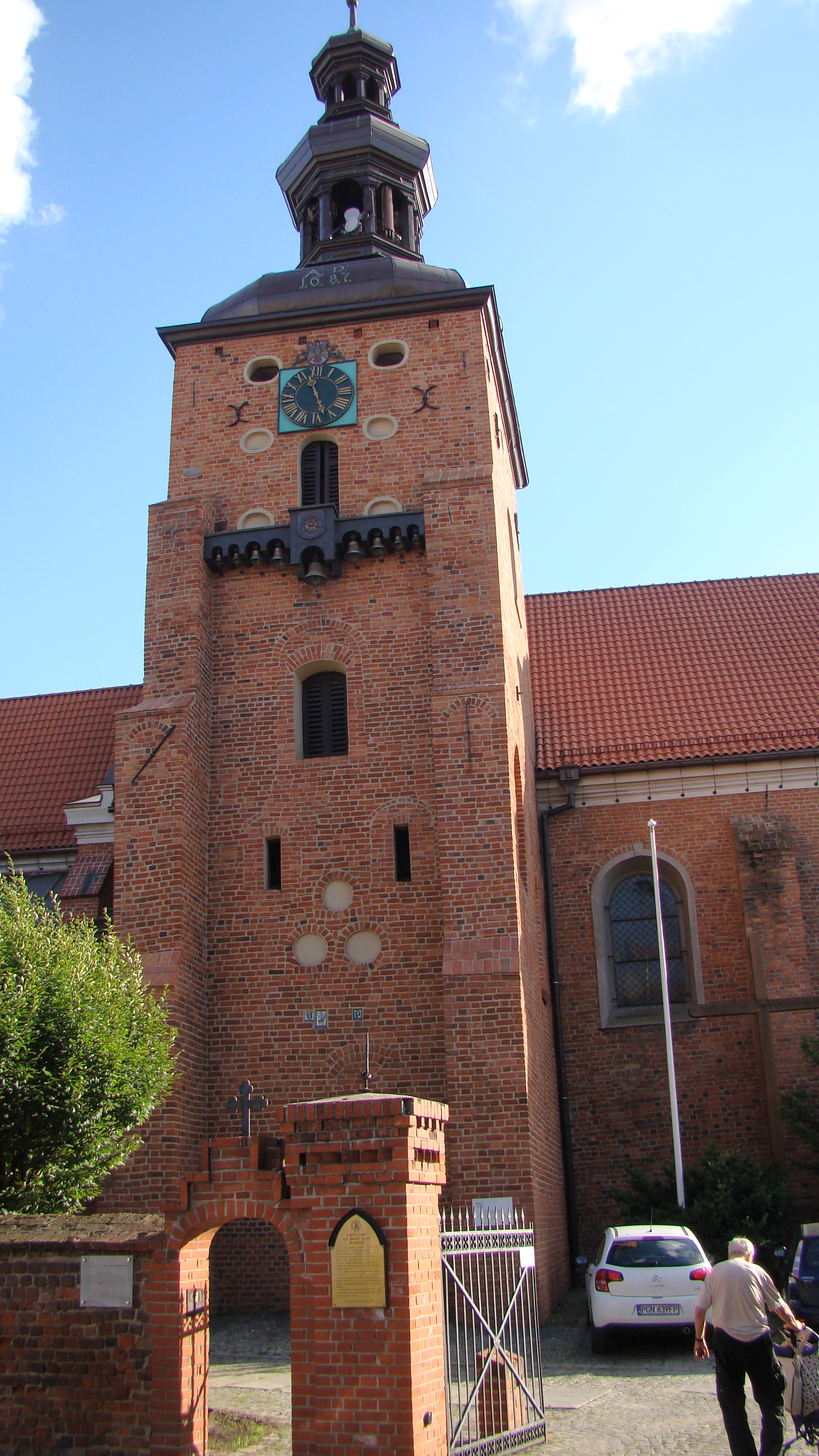 Holy Trinity church – Gniezno